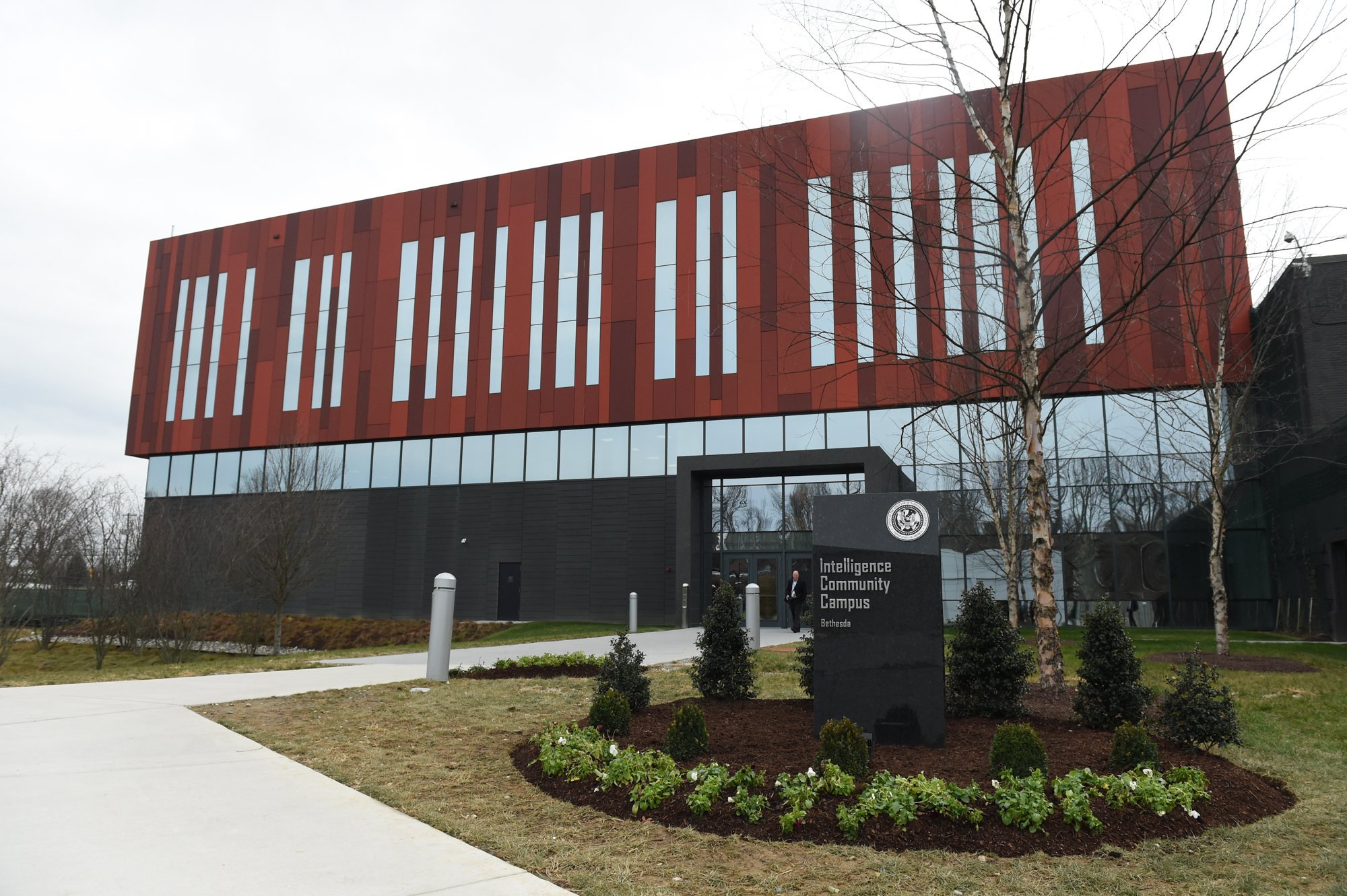 The Intelligence Community Campus-Bethesda in 2017